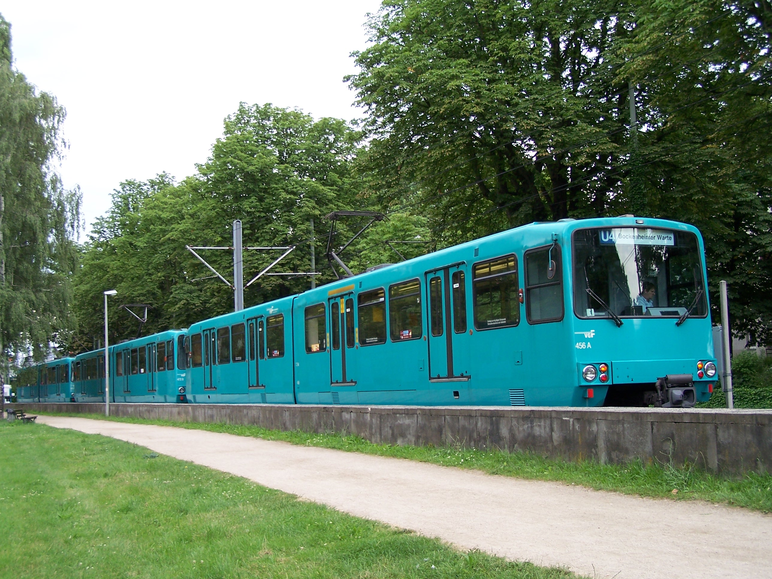 DUEWAG U3 type, reversing track Schäfflestraße, B line (Frankfurt), Direction Hauptbahnhof/Bockenheimer Warte